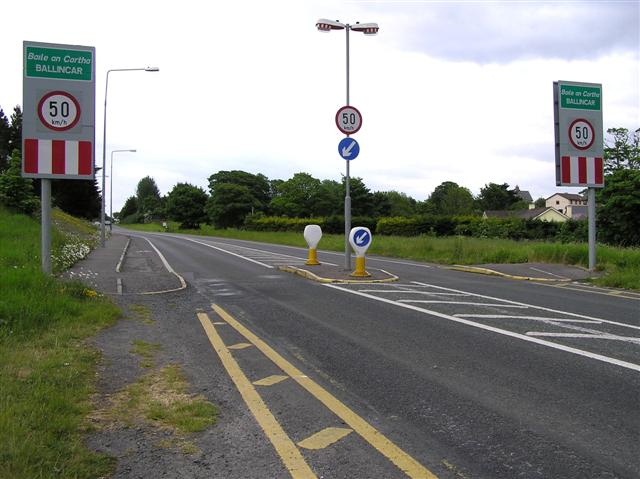 Road at Ballincar Heading east towards Sligo. There is cycle lanes on either side of the road.